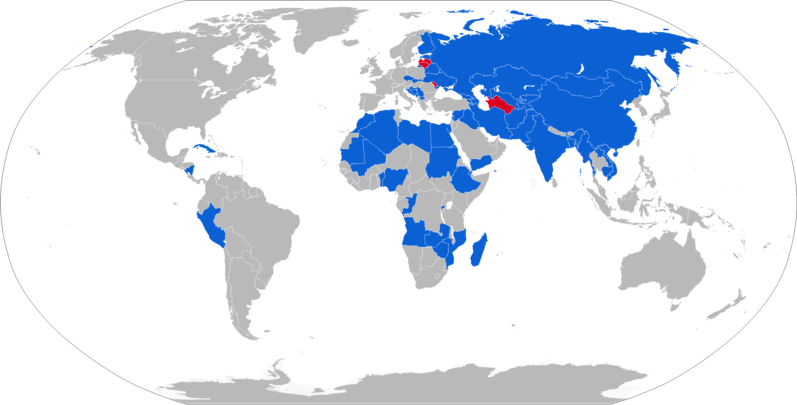 Map of D-30 operators in blue with former operators in red